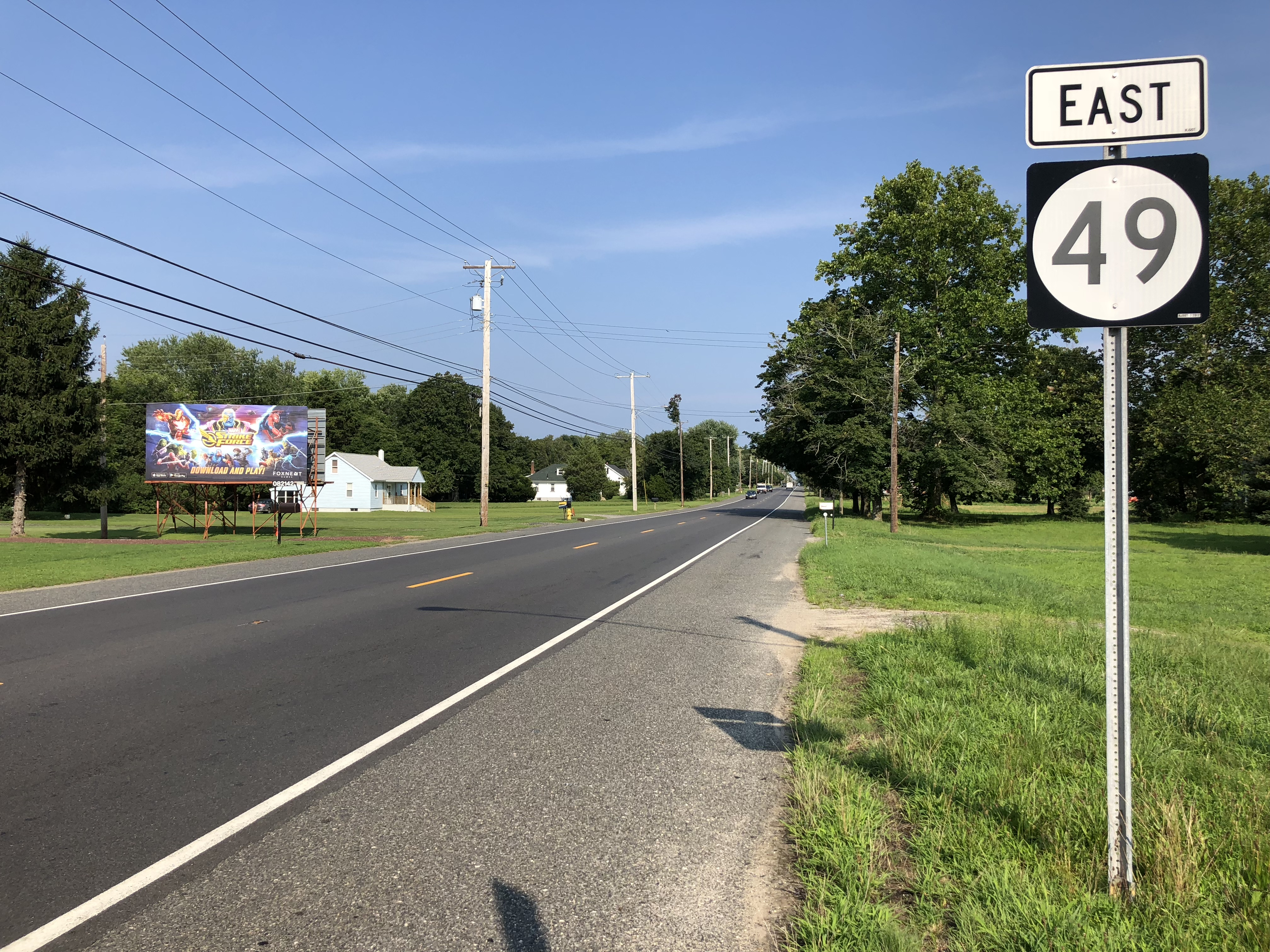 View east along New Jersey State Route 49 (Main Street) just east of Cumberland County Route 625 (Hogbin Road) in Millville, Cumberland County, New Jersey